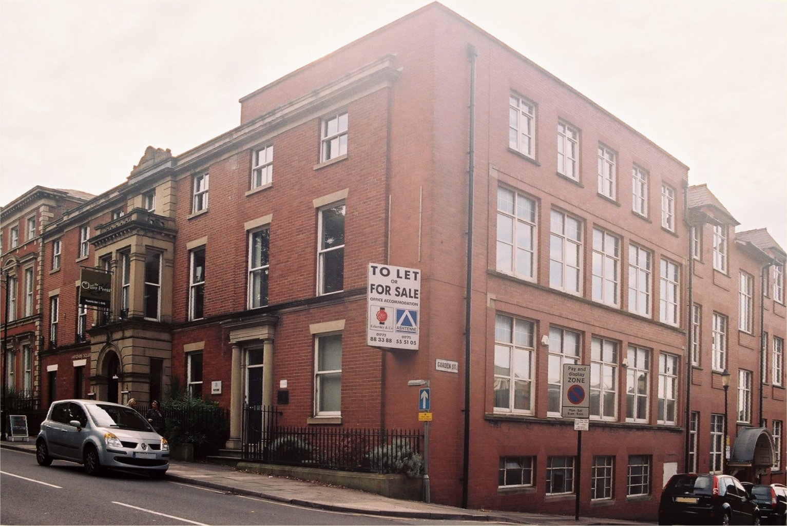 The former Winckley Square Convent School, in Winckley Square, Preston, Lancashire, England, which closed in 1978